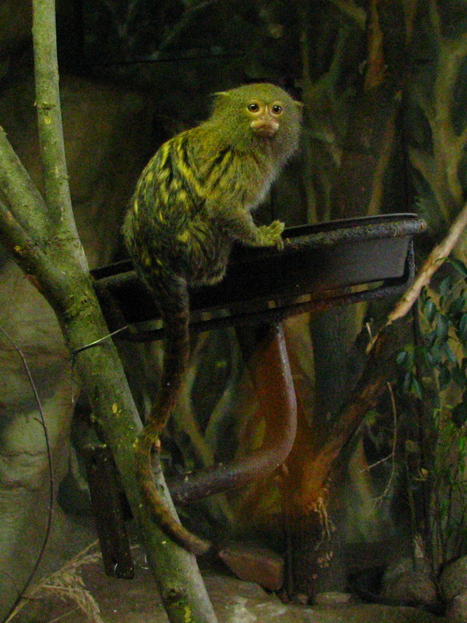 Pygmy Marmoset, ZOO Dvůr Králové, Czech Republic